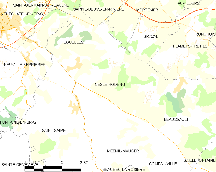 Map of French municipality Nesle-Hodeng